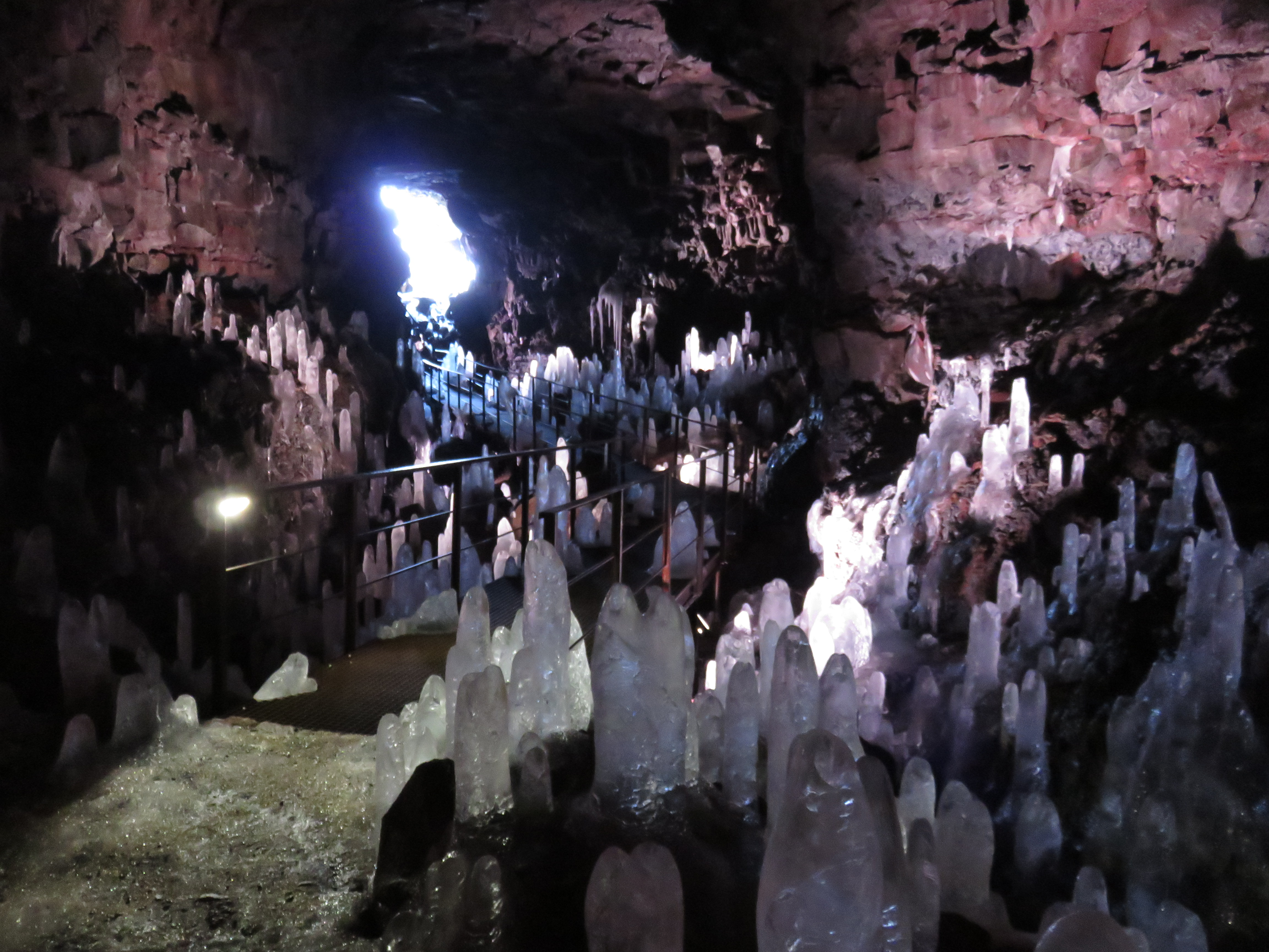 Icicles in Raufarhólshellir lava tube in Iceland